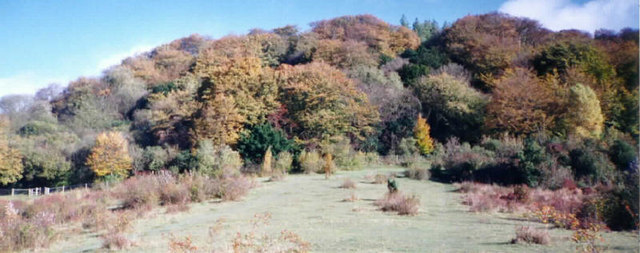 Woods below Pulpit Hill The woods on the side of Pulpit Hill seen from the footpath from Lower Cadsden